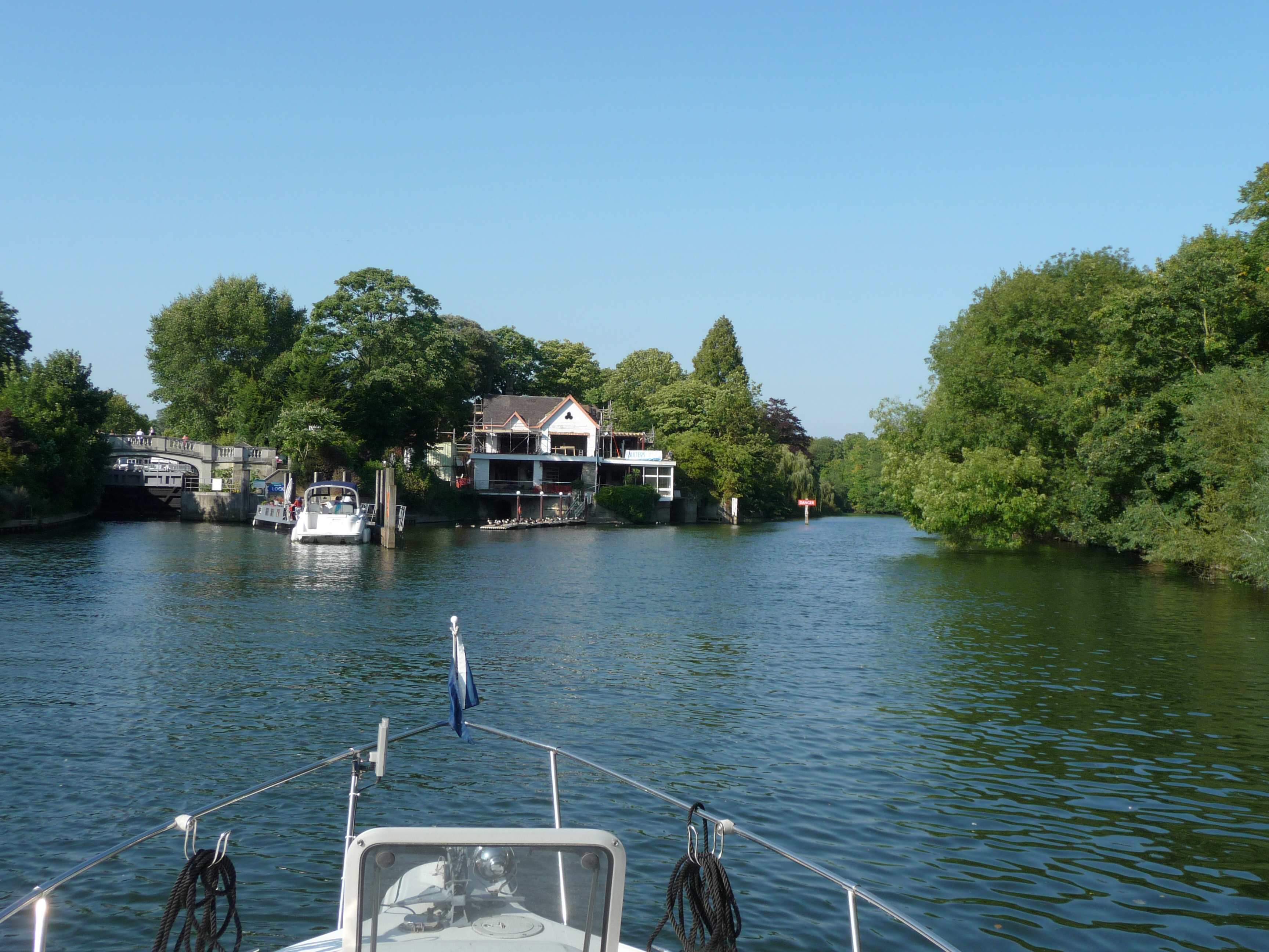 Tail of Boulter's Island, Maidenhead. Boulter's Lock to the left and the tail of Ray Mill Island beyond the "Danger" sign but to the right of the weir stream.